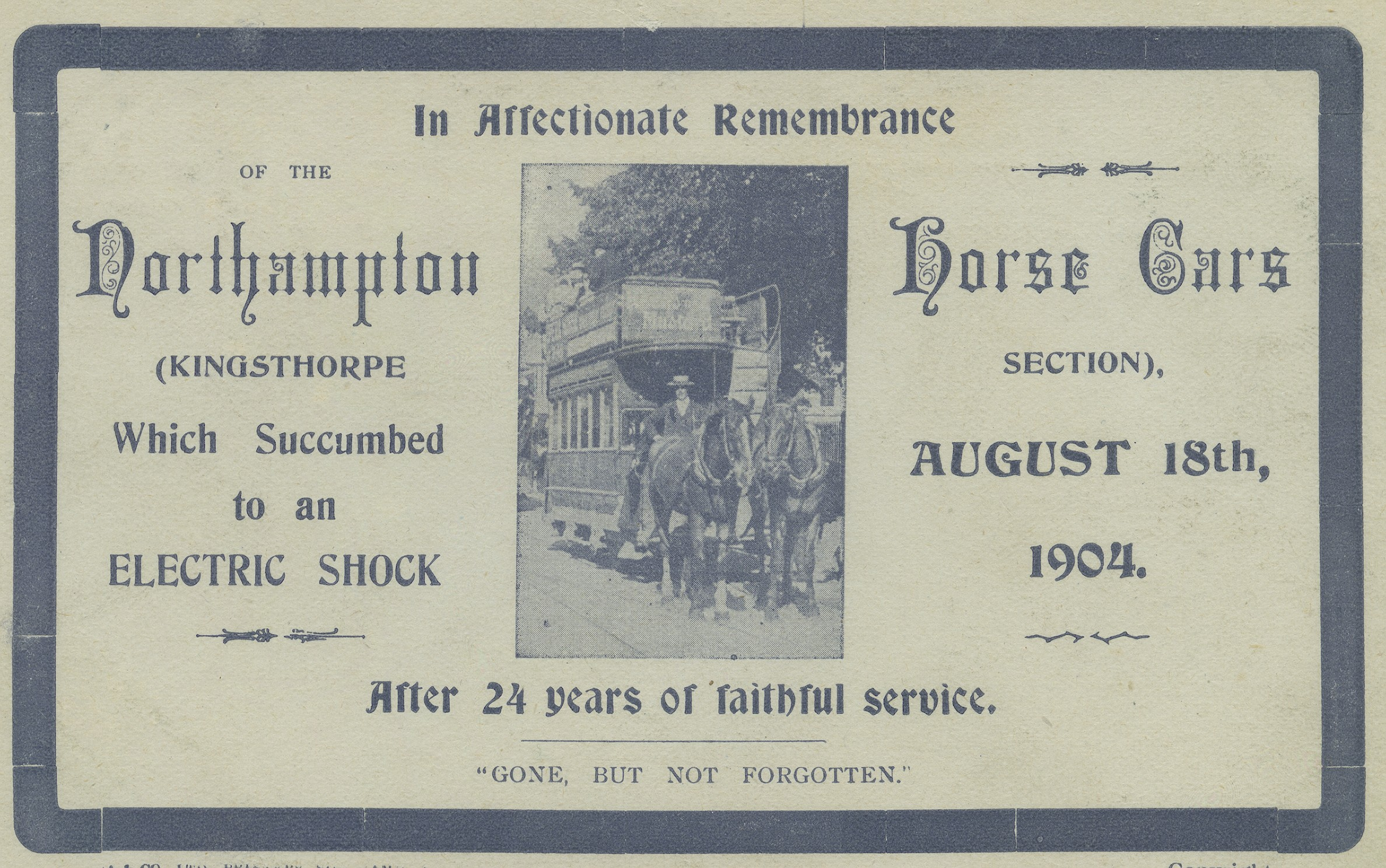 A farewell postcard published in 1904 to mark the end of horse-drawn services on the Northampton Street Tramways. The tramway was electrified and became part of Northampton Corporation Tramways.